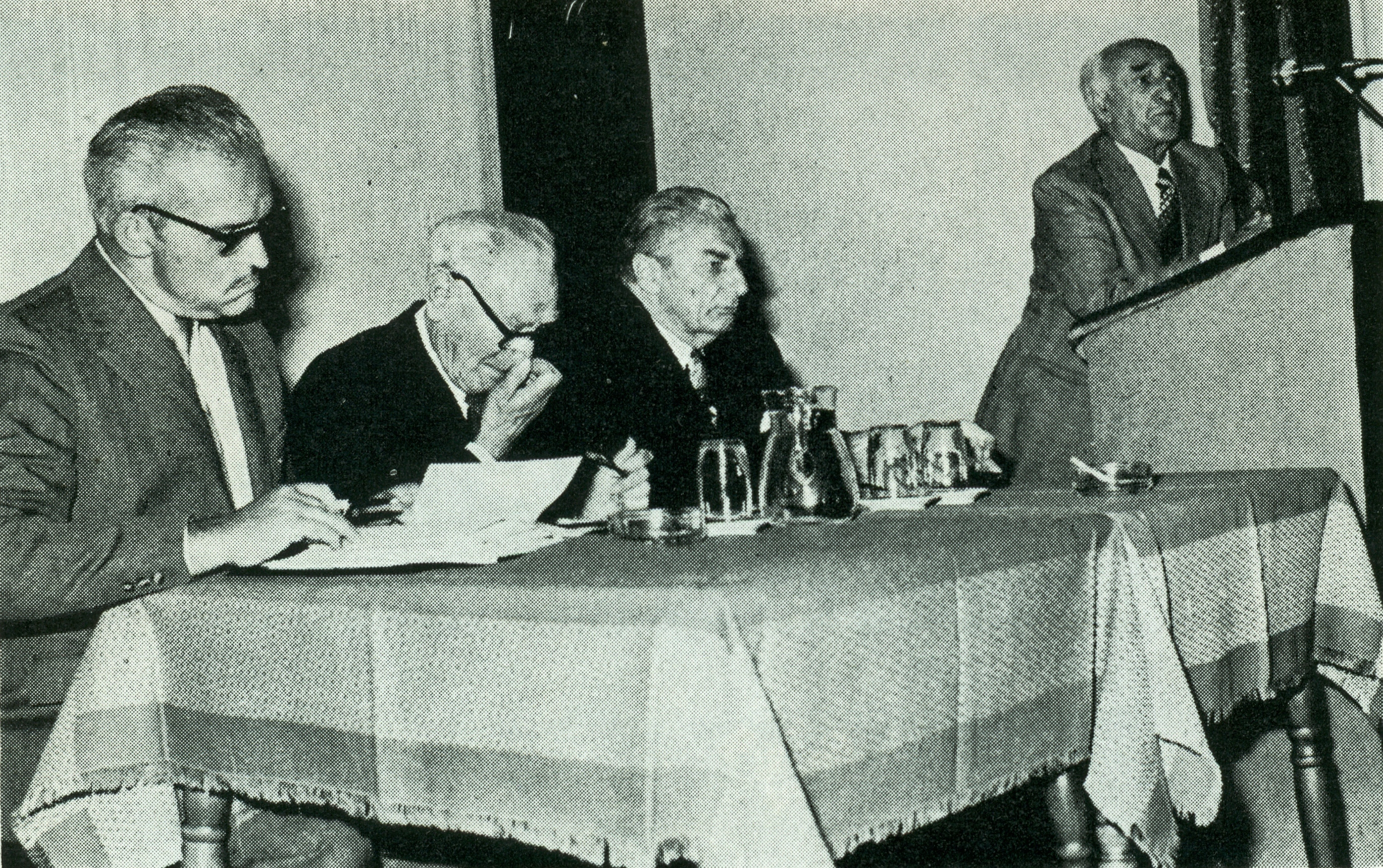 Scientific International Conference "Krapinski pračovjek i evolucija hominida" held on Sept. 17 1976, Krapina Croatia